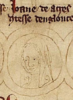 English princess Joan of Acre on the family tree